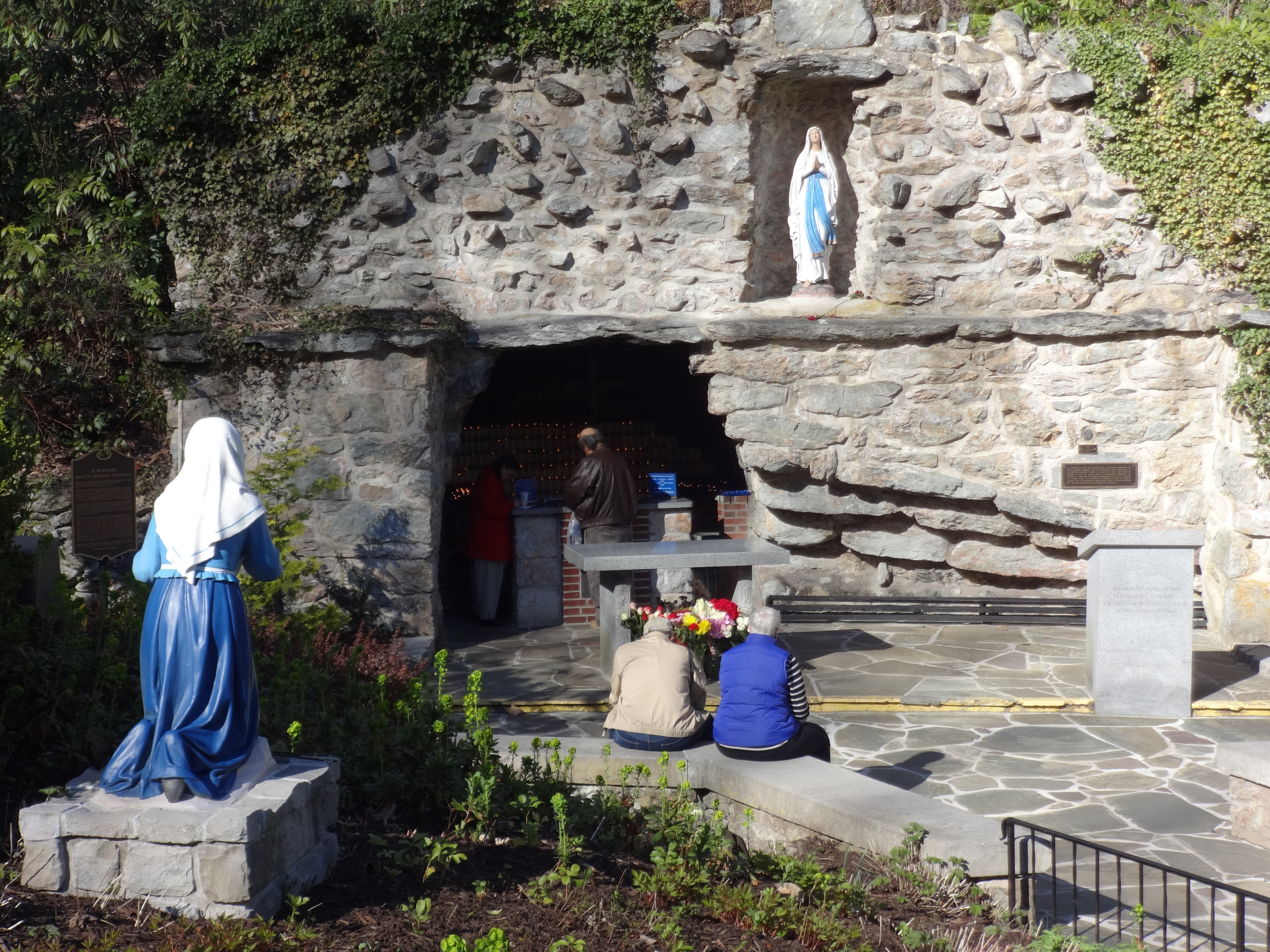 National Shrine Grotto of Our Lady of Lourdes, Mount St. Mary's University, Emmitsburg, Frederick County, Maryland.